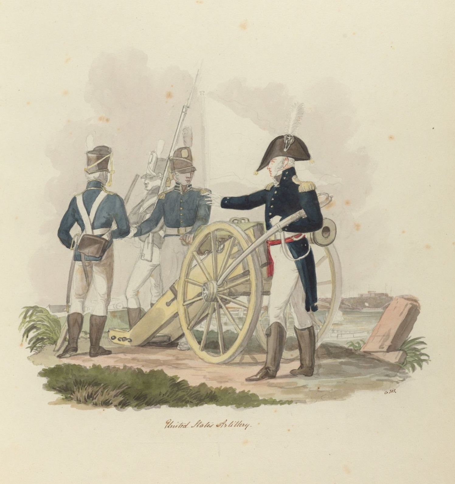 Original drawing: "United States Artillery". Costume of the British & foreign armies, by Charles Hamilton Smith, ca. 1845. Pen, pencil, watercolor; 44 x 36 cm. [cropped from original scan] HEW 15.8.5, Houghton Library, Harvard University